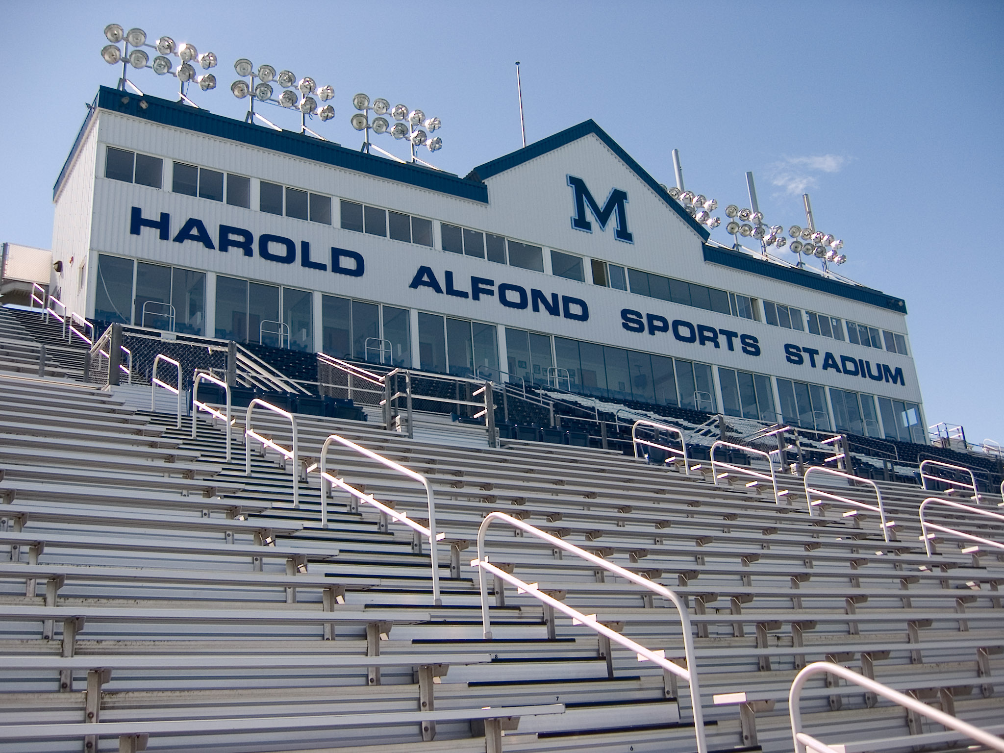 The Alfond Stadium at UMO